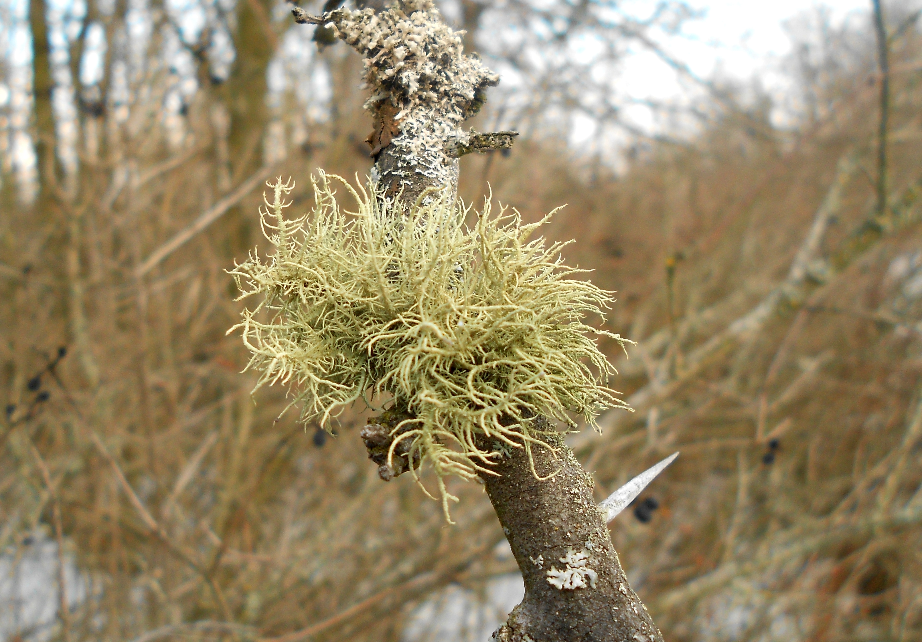 Usnea hirta from Republic of Moldova